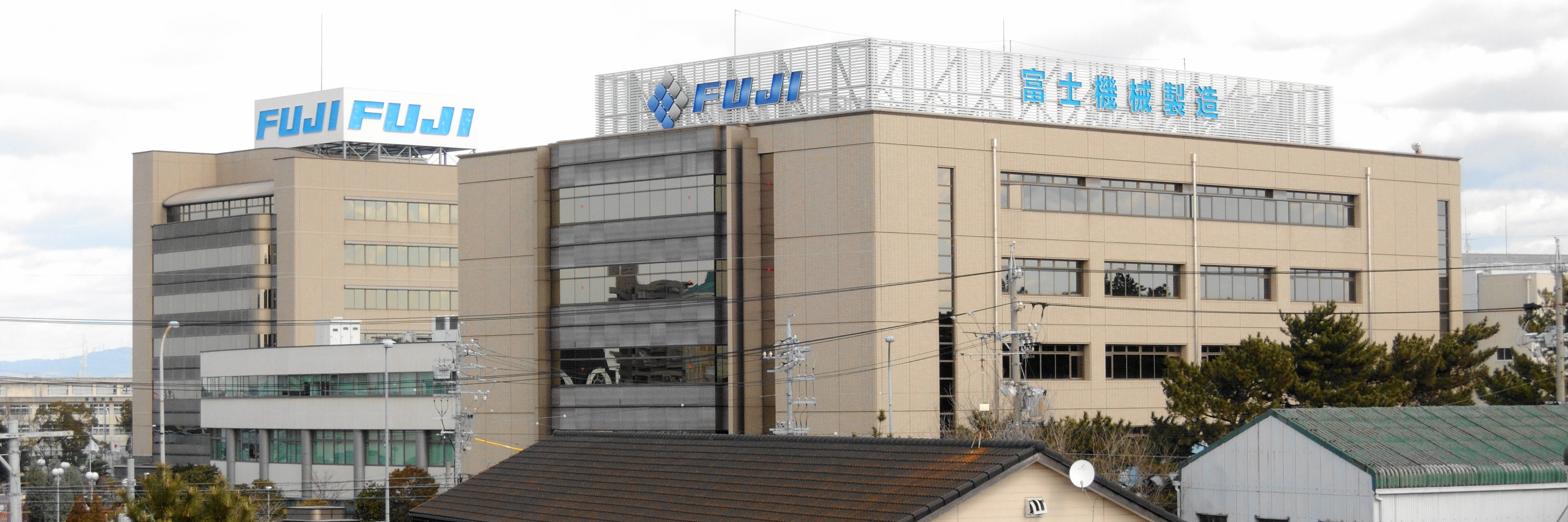 Headquarters of FUJI MACHINE MFG. CO., LTD. ,Aichi prefecture,Japan